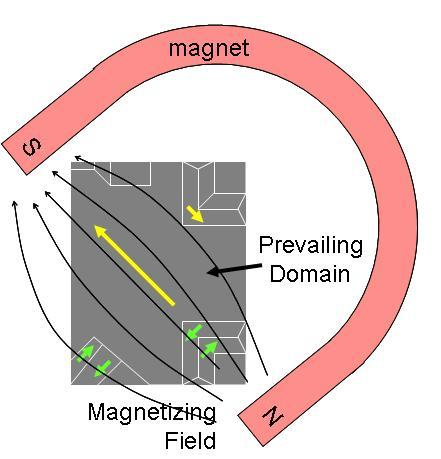 Sketch representing ferromagnetic material magnetic domains when magnetized. John 19:49, 29 August 2007 (UTC)